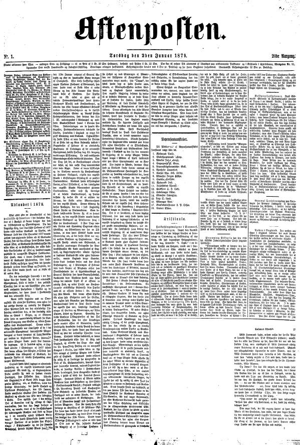 The front page of the norwegian newspaper Aftenposten from the 2nd of January 1879.